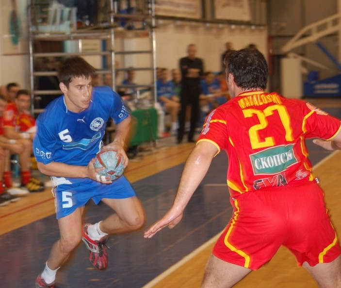 Smoler in an Israel's game vs Mecedonia